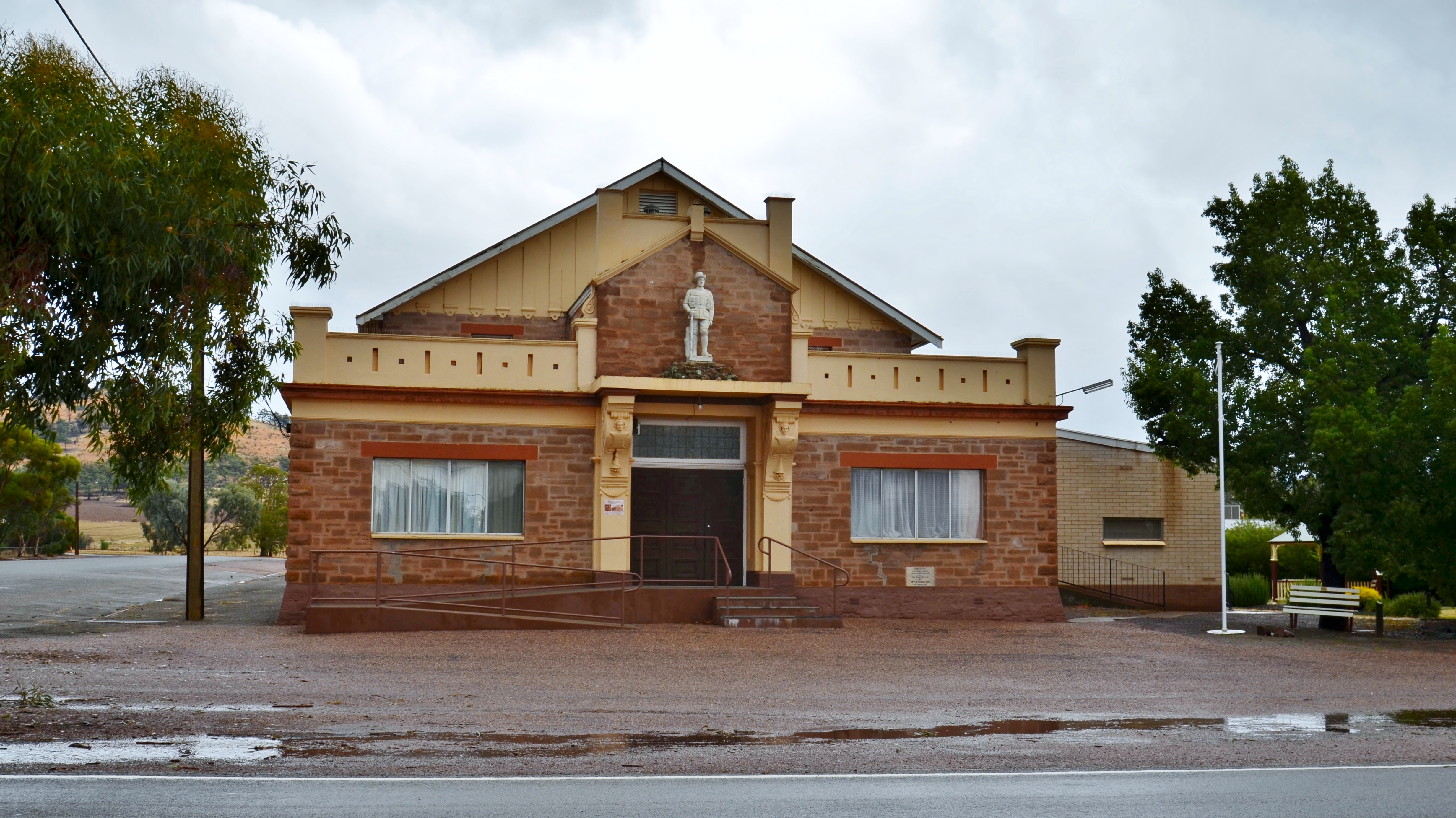 View of the Wilmington Memorial Hall, cnr Horrocks Highway and Angas Terrace, Wilmington, South Australia